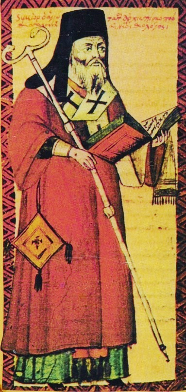 Saint Symeon (Simeon), archbishop of Thessaloniki (Salonica), from Codex 47, folio 82, of the Vatopedi Monastery